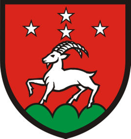 Coat of arms of Ayer in Switzerland (Canton of Valais)